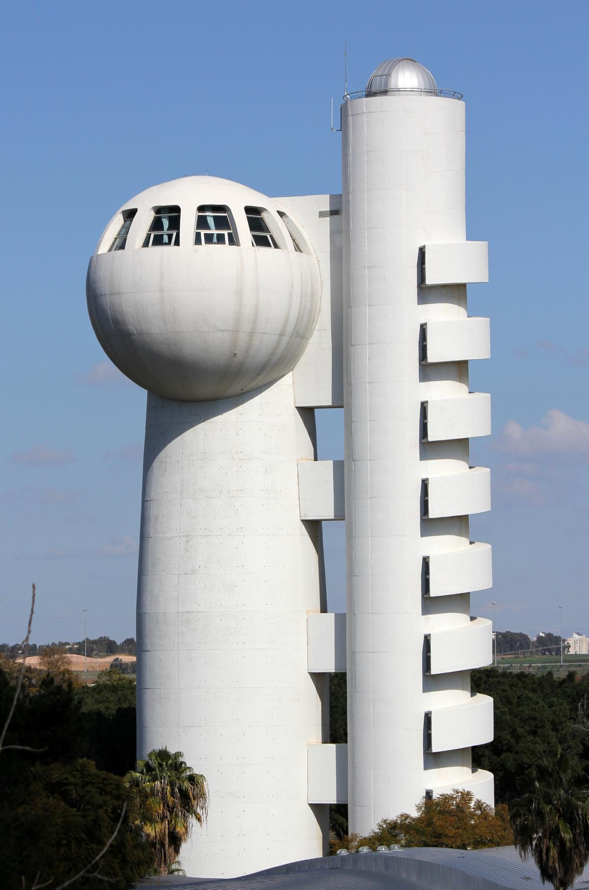 The Koffler Accelerator. A linear particle Accelerator, located in the Weizmann Institute of Science, Rehovot, Israel.